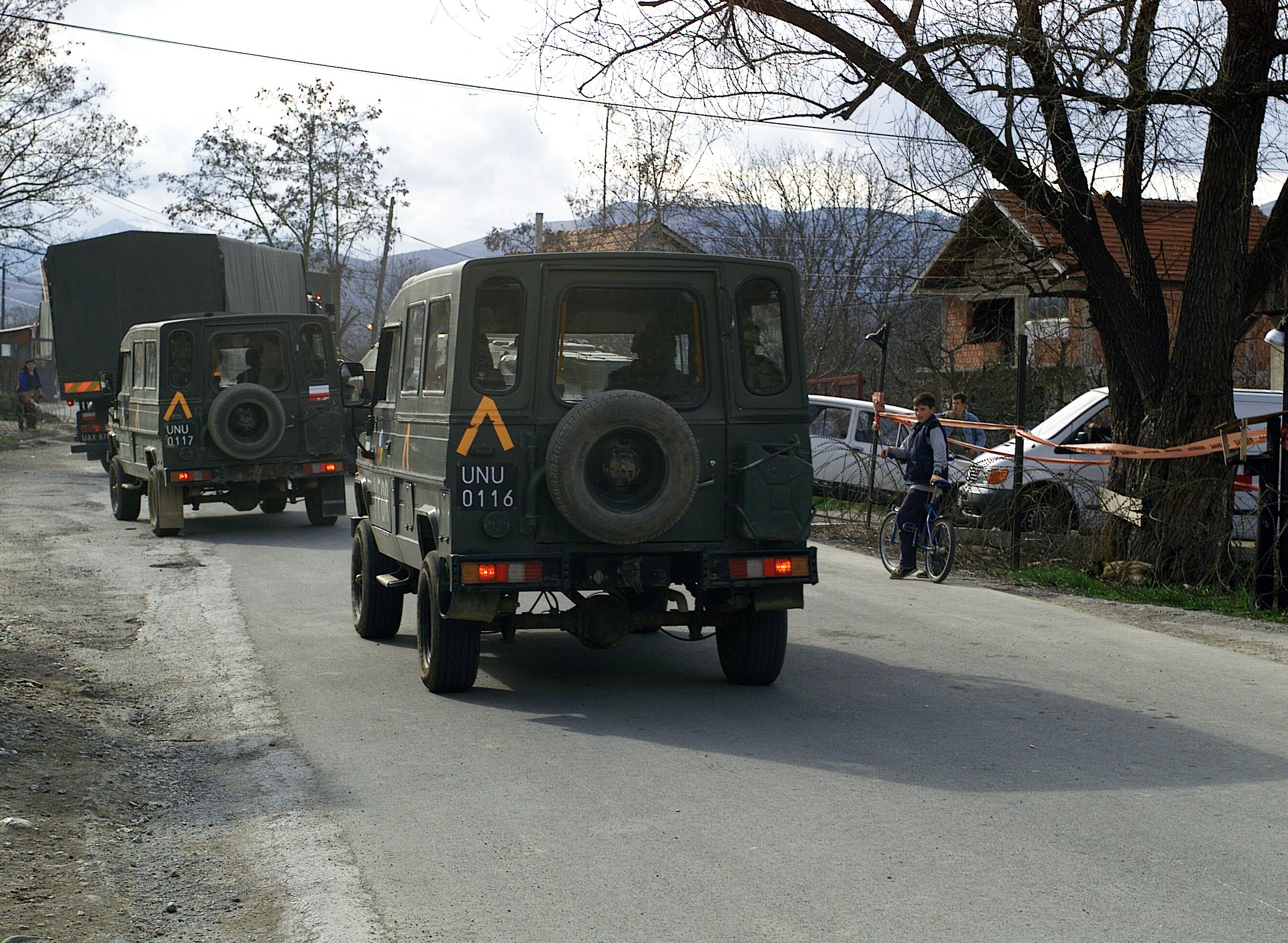 Six vehicles from the Polish-Ukrainian Battalion (Polukrbat) transport food through Ukrainian observation point in Drajkovce, Kosovo, on March 21, 2001. This humanitarian aid is for the Serbian people of Strpce, Kosovo, from the German Red Cross.